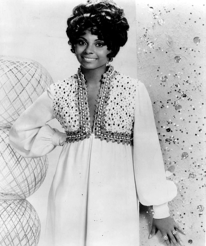 Photo of Leslie Uggams.